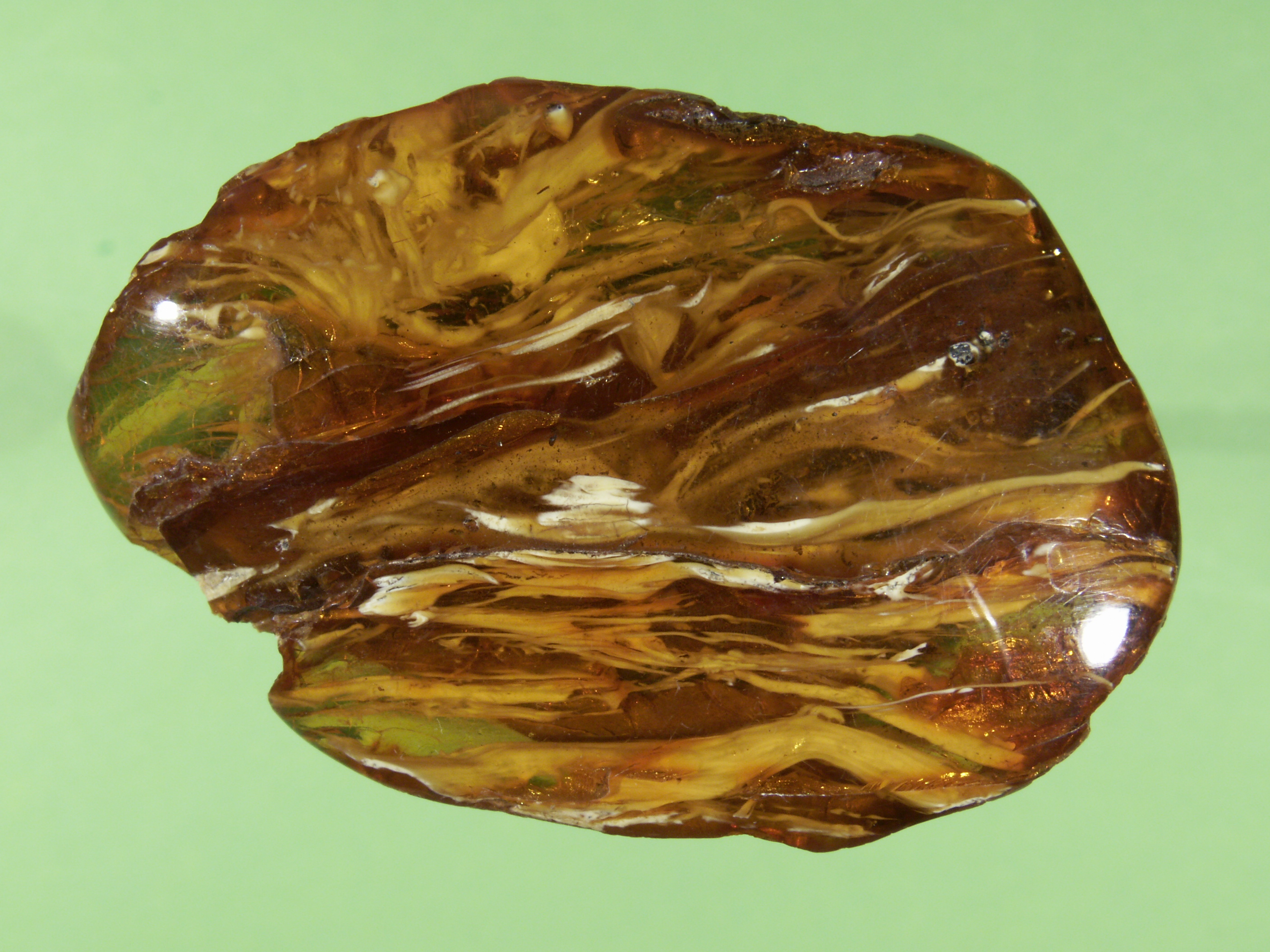 Amber from Bitterfeld, succinite